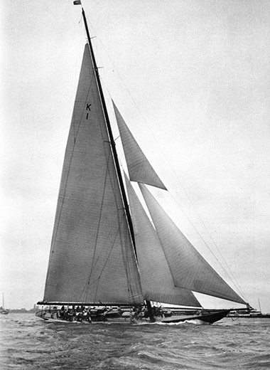 the Britannia (George Lennox Watson design, 1893) racing in her 1931 configuration, when she was fitted with a bermuda rig to rate in the Universal rule as a J-class yacht. Unfortunately the conversion did not improve her competitivity amongst the 1930s class-built yachts.